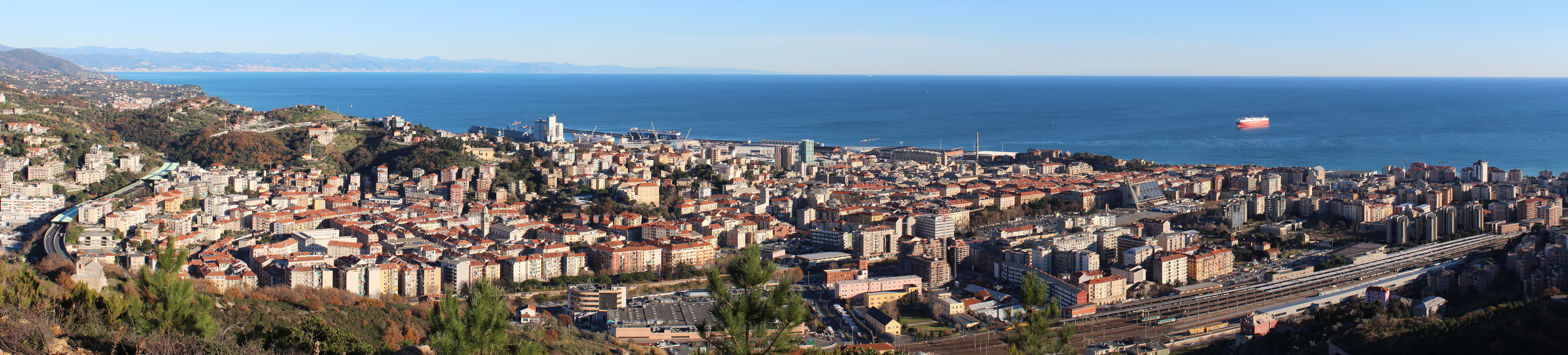 Panorama of Savona NOTE: This image is a panorama consisting of multiple frames that were merged or stitched in software. As a result, this image necessarily underwent some form of digital manipulation. These manipulations may include blending, blurring, cloning, and colour and perspective adjustments. As a result of these adjustments, the image content may be slightly different from reality at the points where multiple images were combined. This manipulation is often required due to lens, perspective, and parallax distortions.